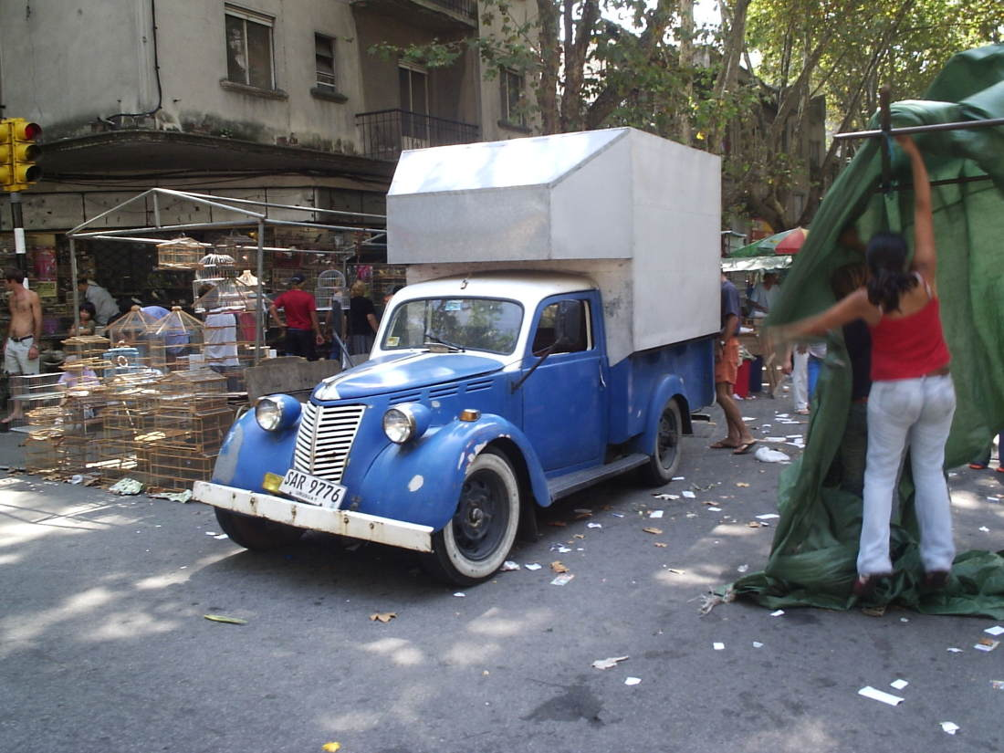 A Fiat 1100 ELR 1949, still working hard in Montevideo, Uruguay